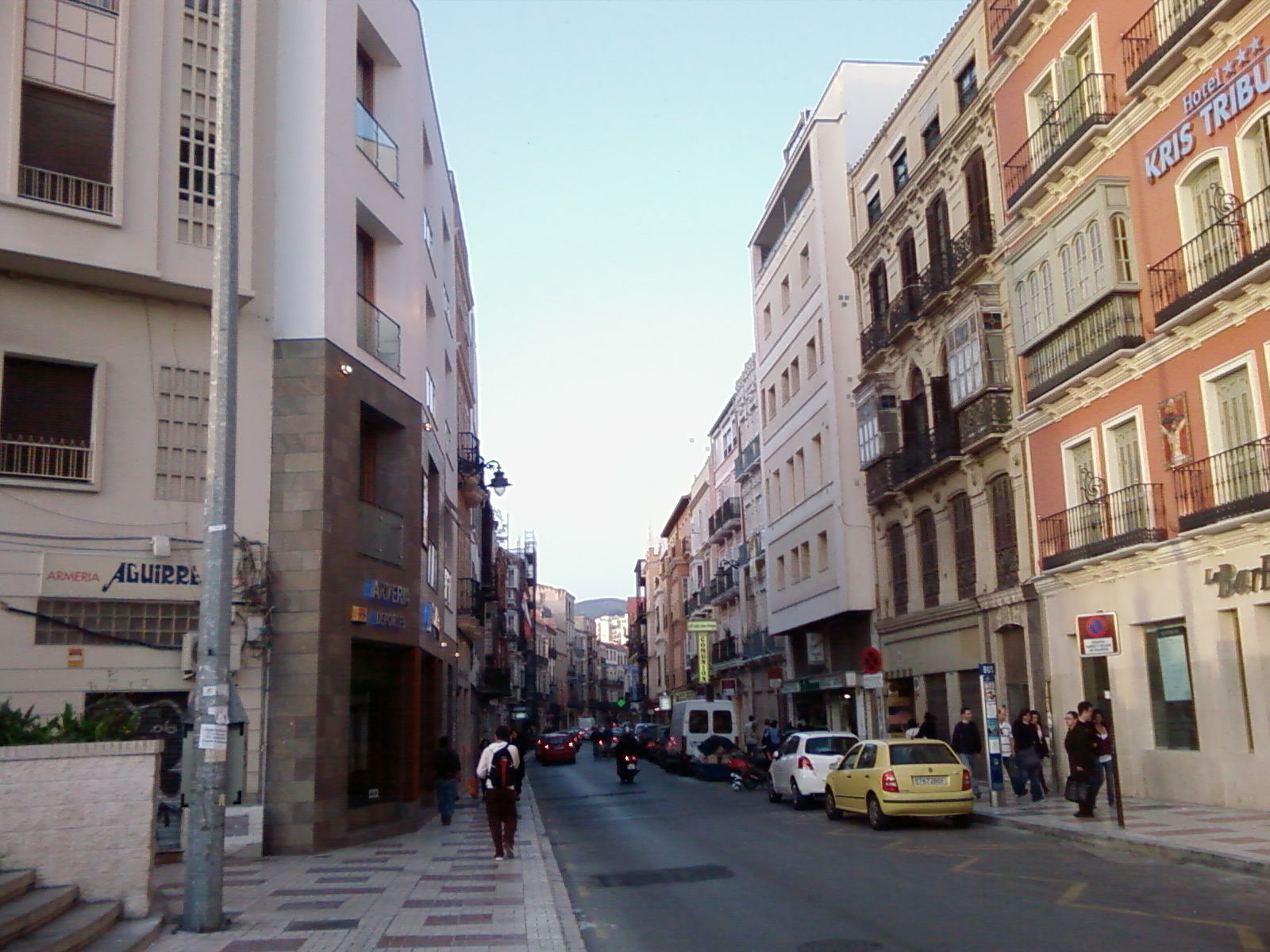 Carretería Street, Málaga, Spain